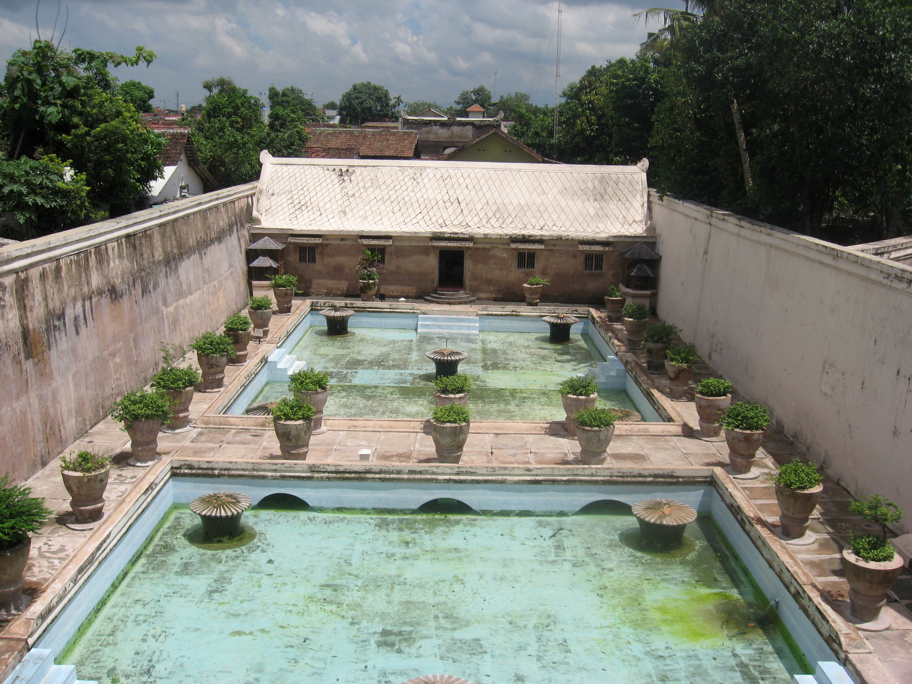 The Tamansari bathing areas, where the concubines of the Sultan of Yogyakarta would bathe. The Sultan, standing where this picture was taken, would then choose one to accompany him for the night.